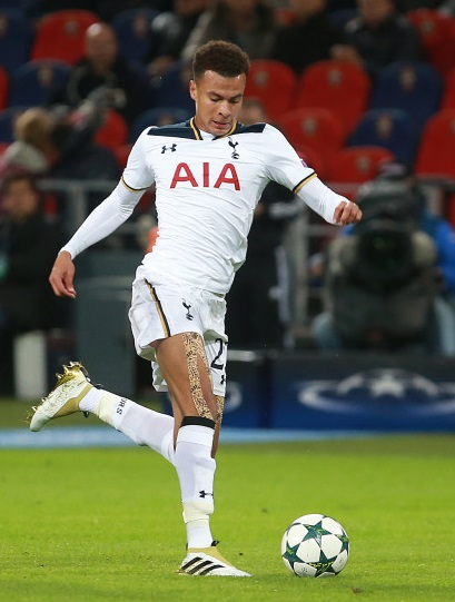 Alli in action during CSKA Moscow - Tottenham in September 27, 2016.